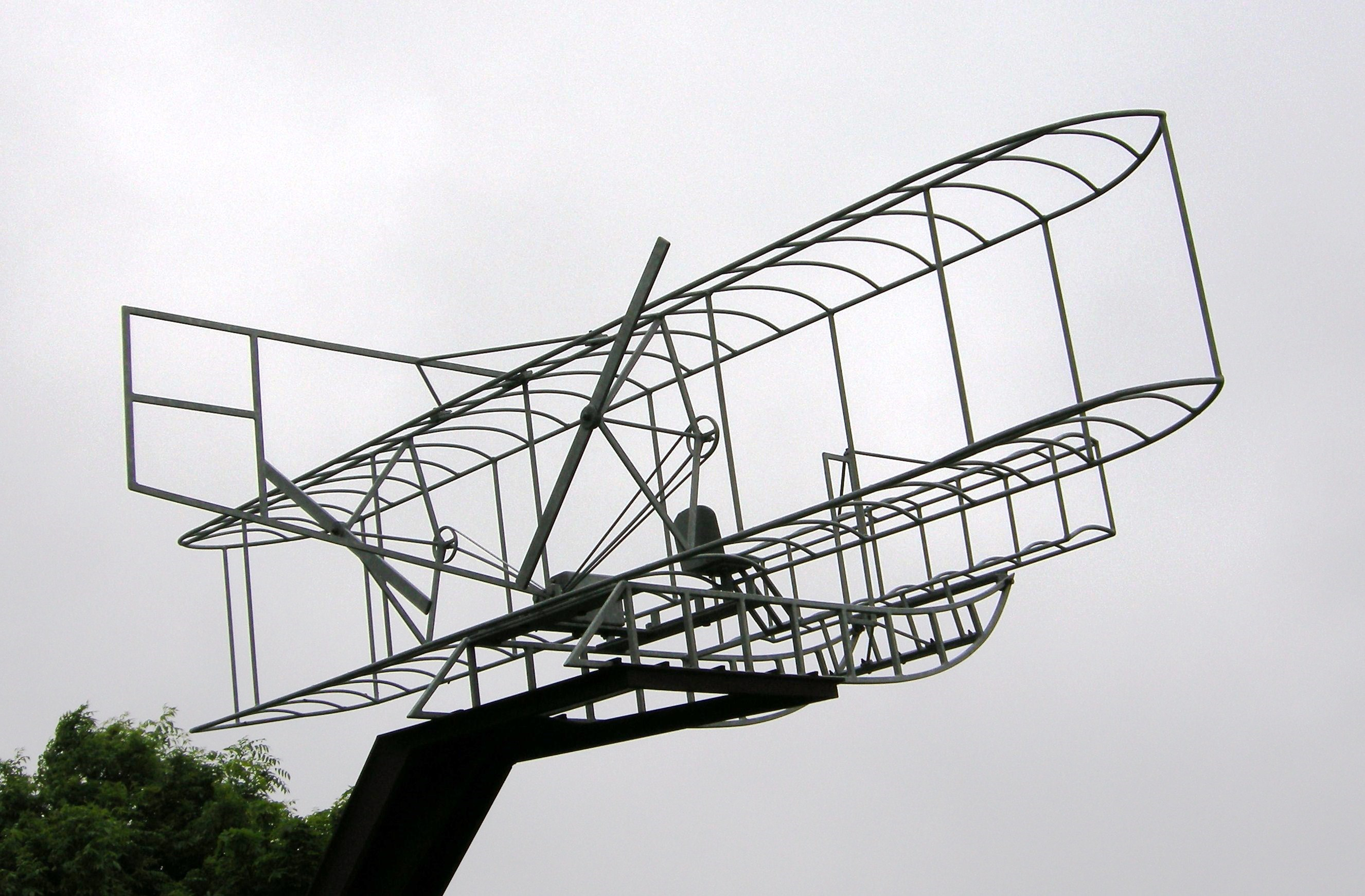 Sculpture depicting a Short Brothers biplane at Eastchurch, Isle of Sheppey, Kent. Unveiled July 2009 to commemorate the centenary of British aviation.